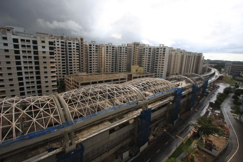 Pioneer MRT Station taken on 14 Dec 2007